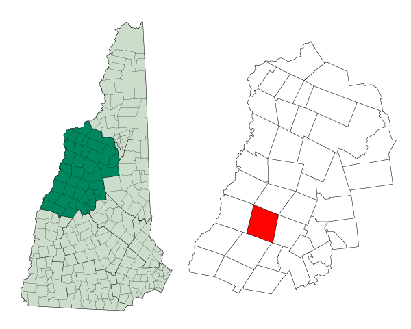 Map of a municipality in Belknap County, New Hampshire